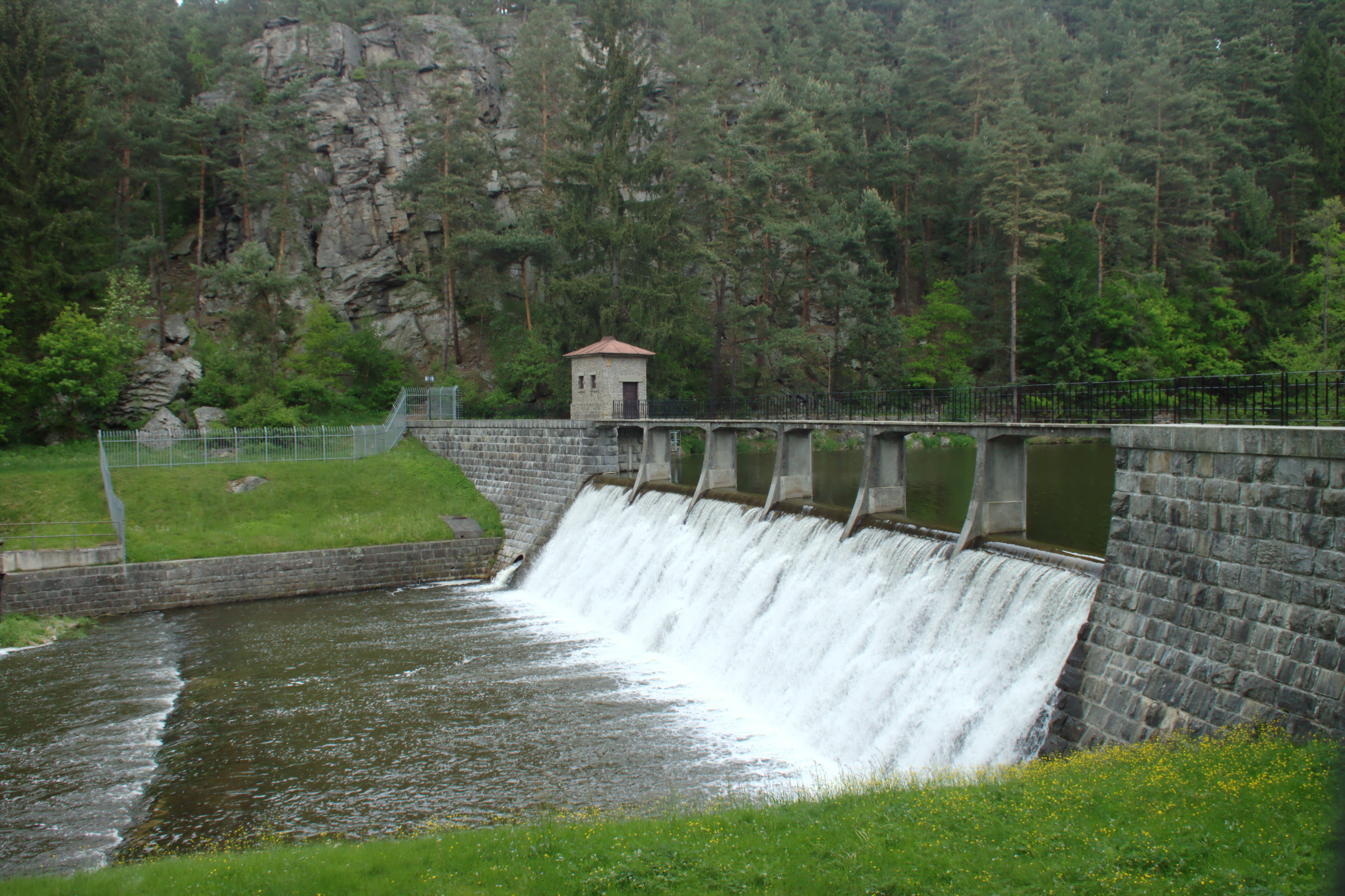 Želivka River between the towns of Sedlice and želiv, Vysočina Region, CZ